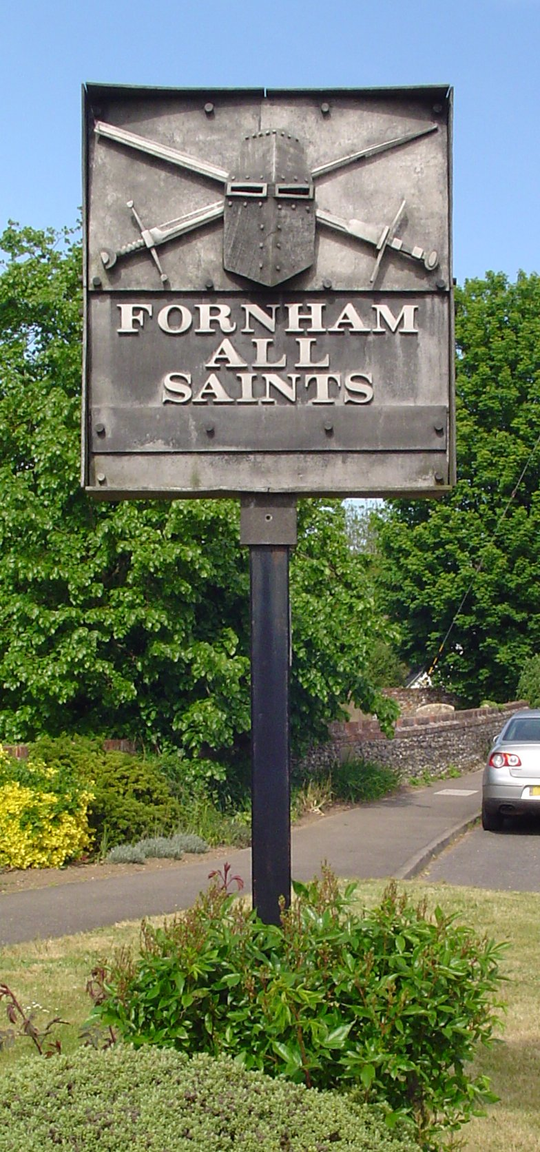 Signpost in Fornham All Saints